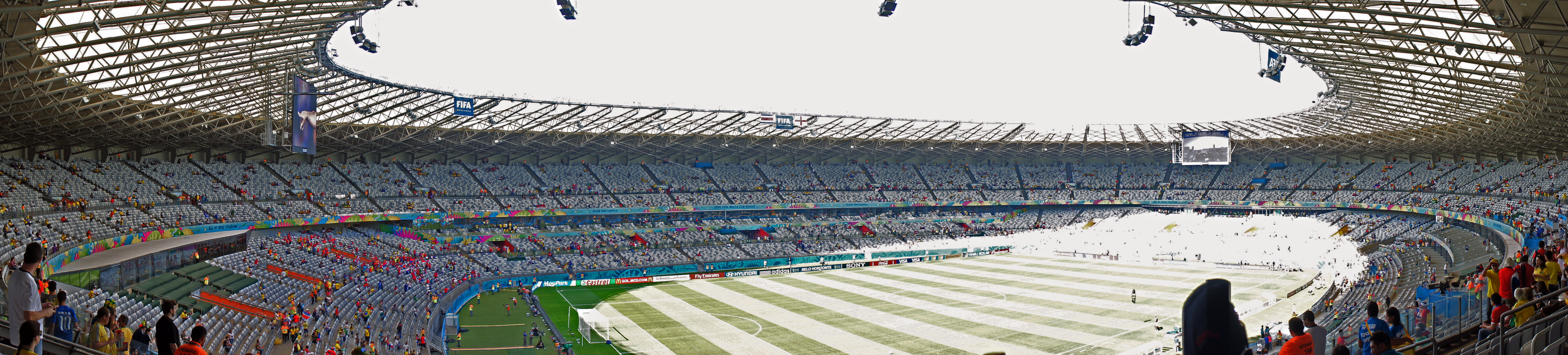 Panoramic view of the interior of Estádio Mineirão in Belo Horizonte during the Costa Rica-England match at the 2014 FIFA World Cup, Brazil.